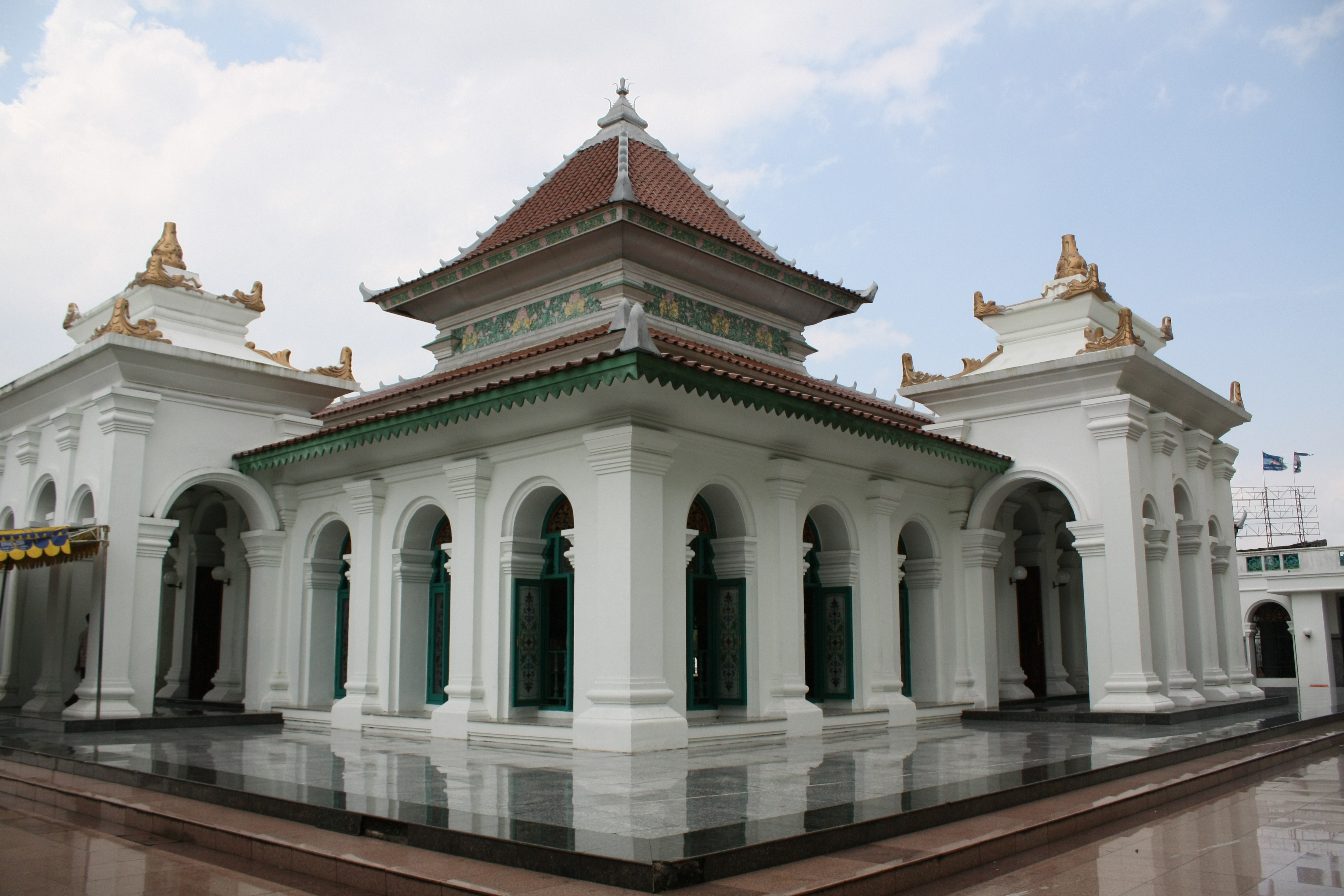 Palembang Great Mosque